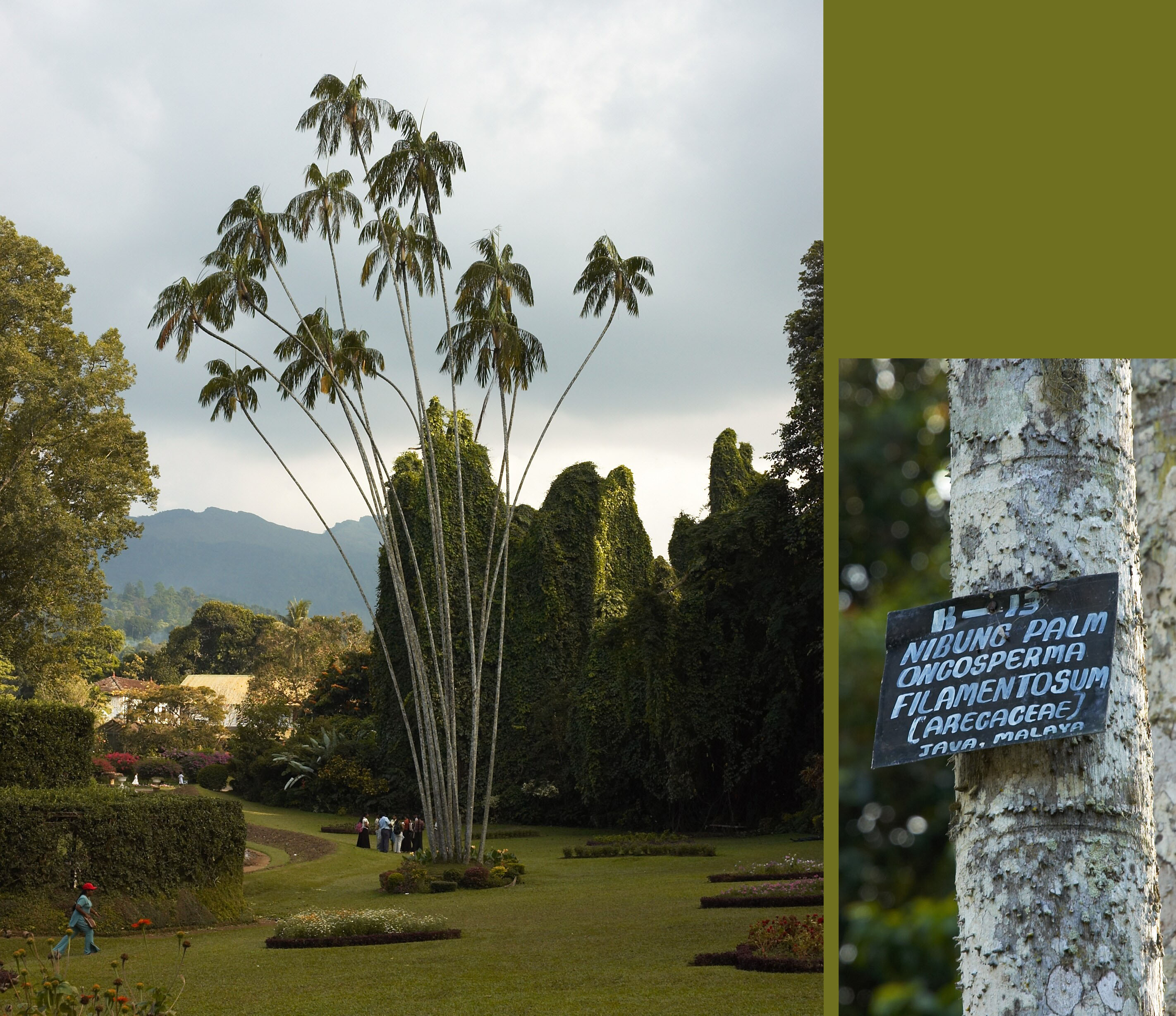 Oncosperma filamentosum or Nibung palm in the botanic garden at Peradenia, a suburb of Kandy (Sri Lanka).